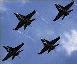 Four TUDM's F/A-18D Hornets. Photos by MSgt. Marvin D. Krause, USAF